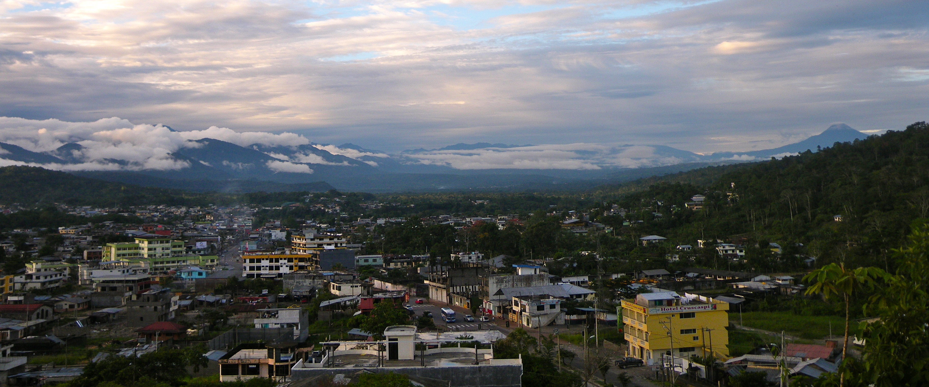 Tena, Ecuador on 25 September 2011